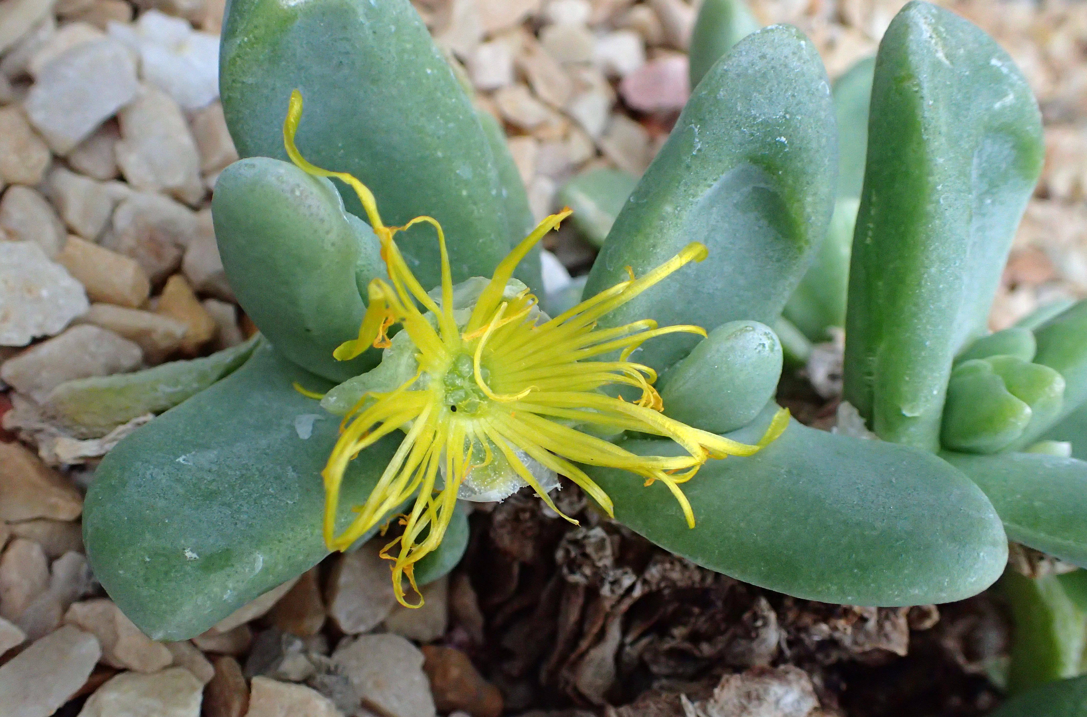 Glottiphyllum oligocarpum at Garfield Park Conservatory